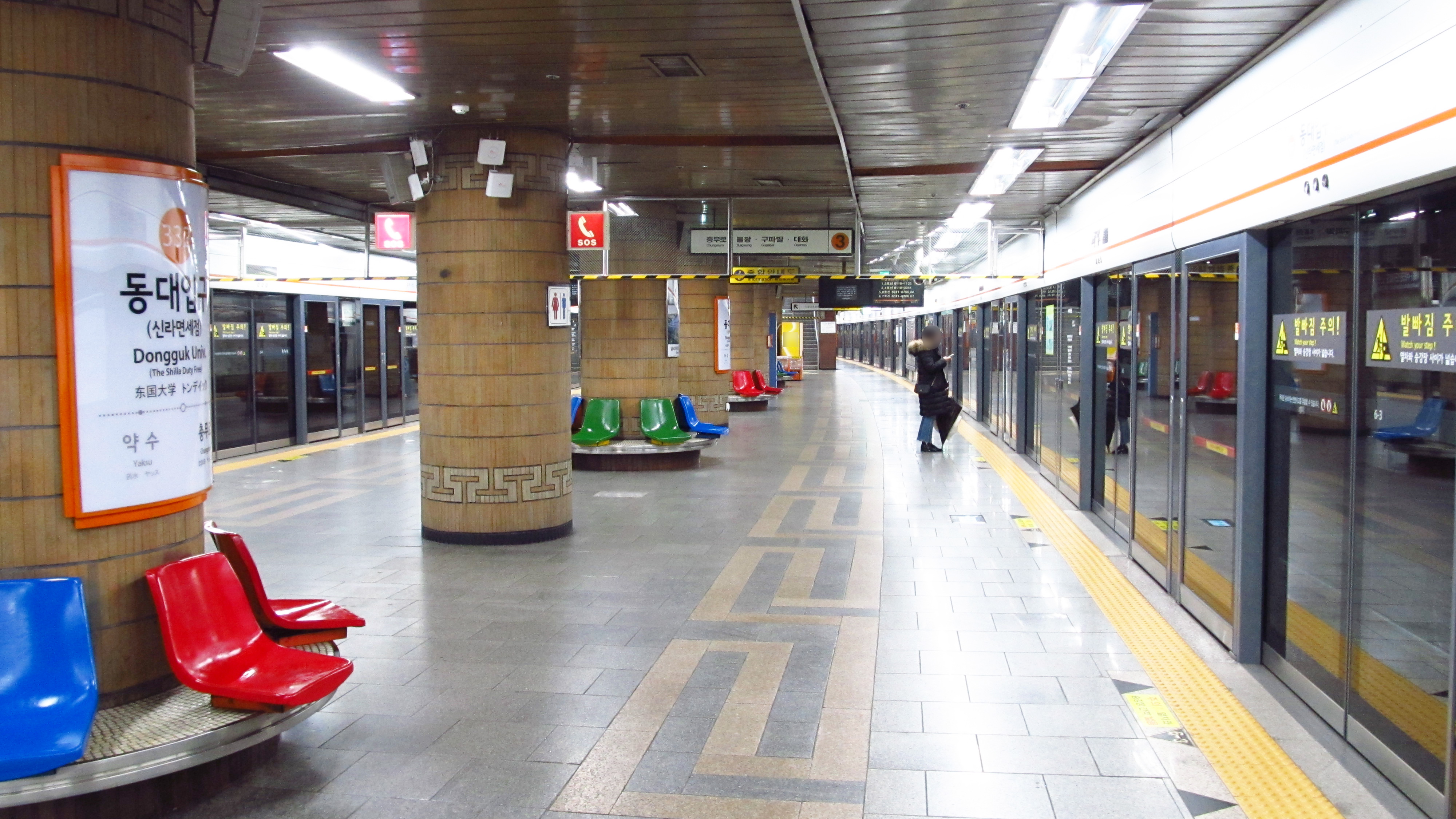 The platform at Dongguk University Station on Seoul Subway Line 3 in Jung-gu, Seoul, Republic of Korea(South Korea)